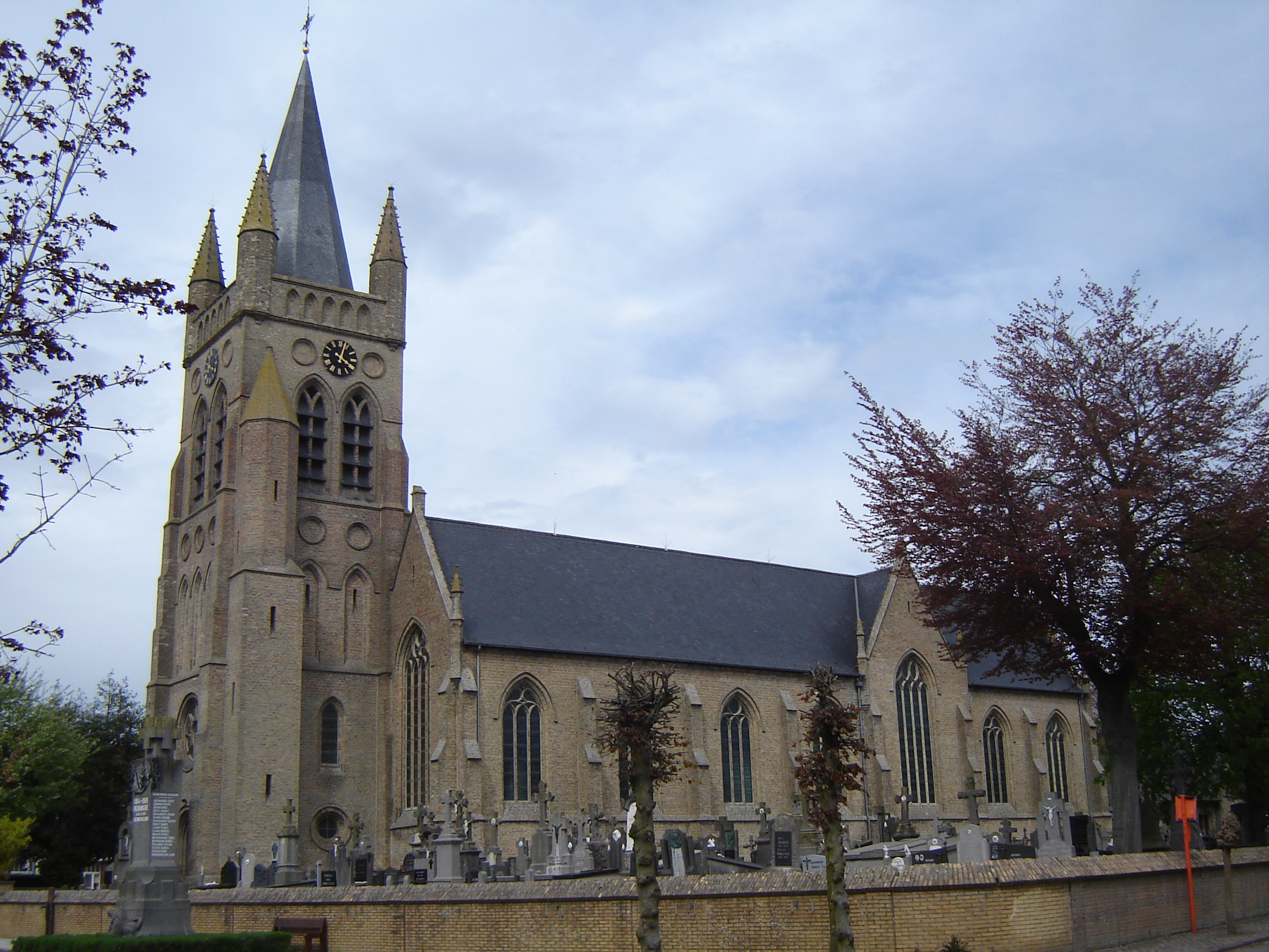 Church of Saint Rictrude in Reninge. Reninge, Lo-Reninge, West Flanders, Belgium